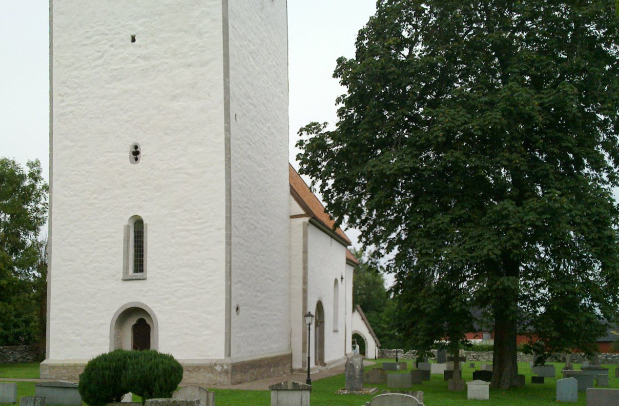 Church of Linde, Gotland, SE